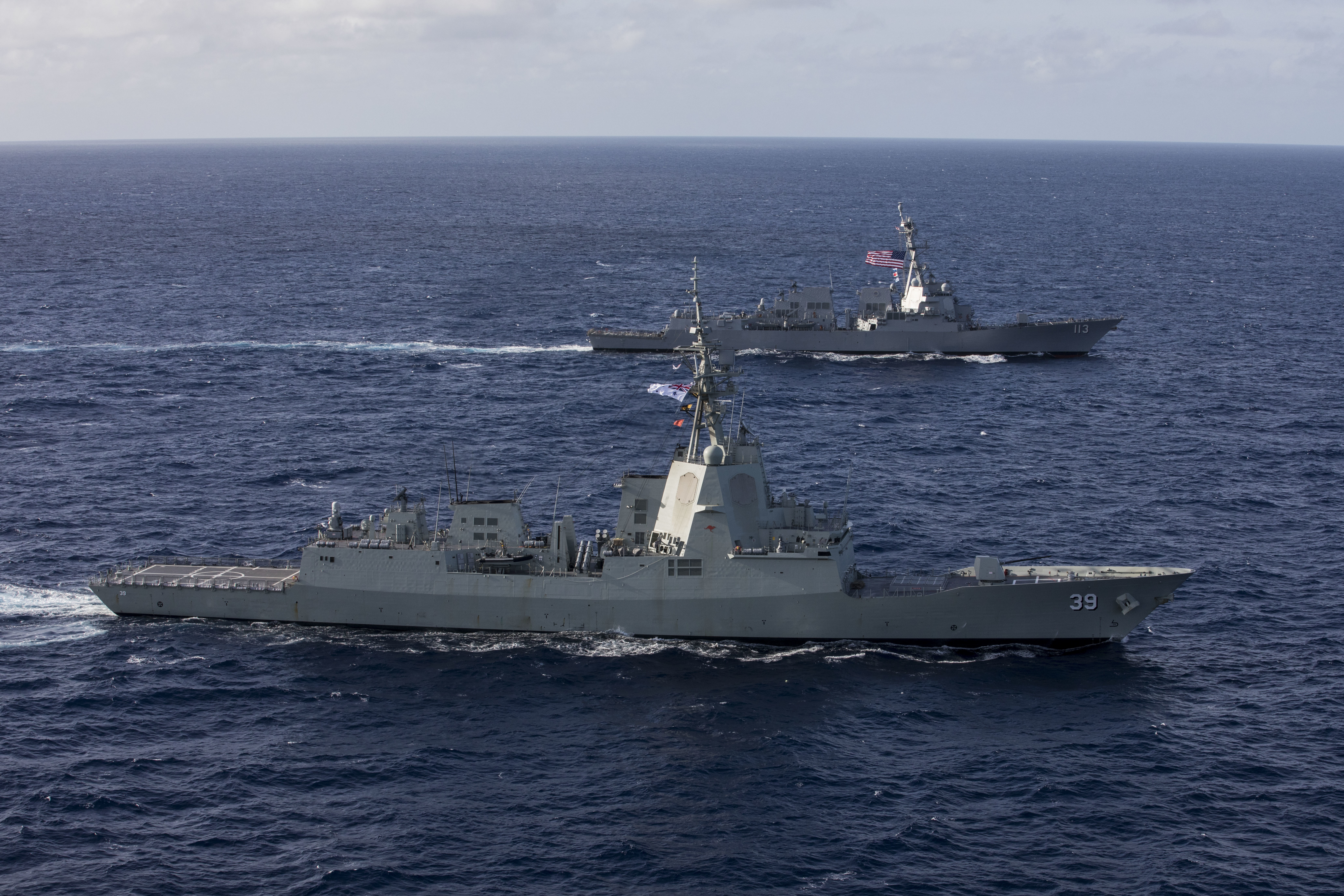 Royal Australian Navy ship HMAS Hobart (DDG 39) and U.S. Navy ship USS John Finn (DDG 113), both guided missile destroyers, conduct a cooperative deployment in the eastern Pacific Ocean September 21, 2018. The United States and Australia are commemorating 100 years of “mateship” since the two nations fought side by side in 1918 during World War I.